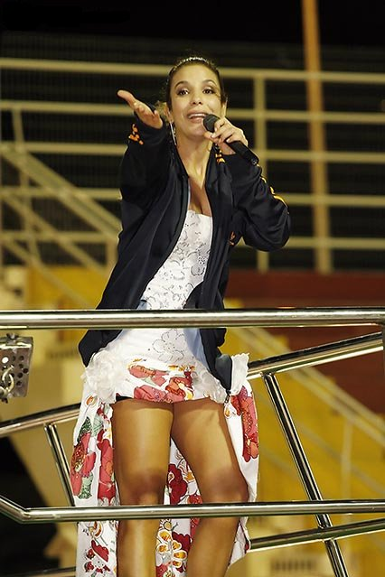 Ivete Sangalo sings in Florianópolis.Folianopolis 2006